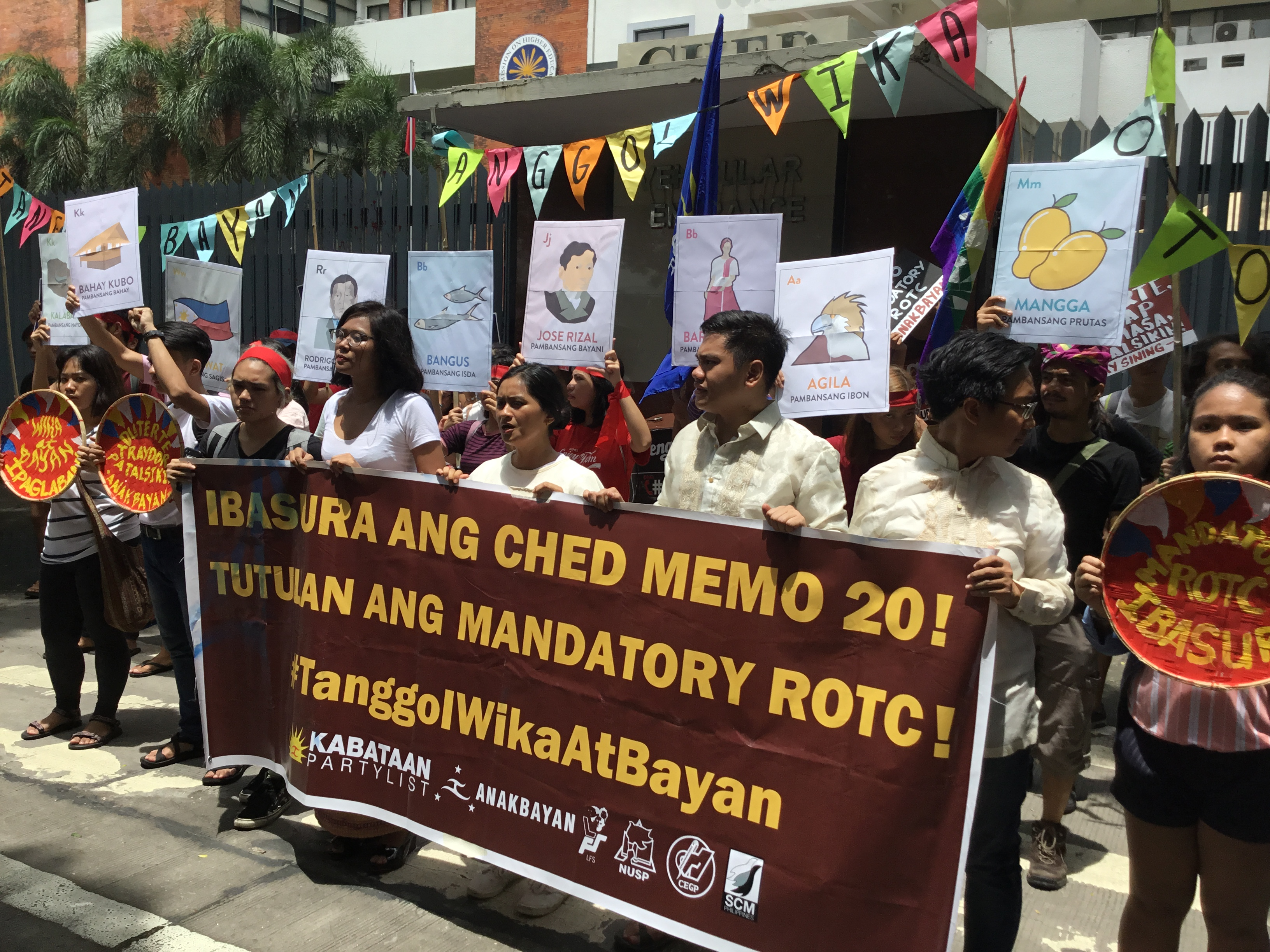 Student Rally at CHEd August 11 2019